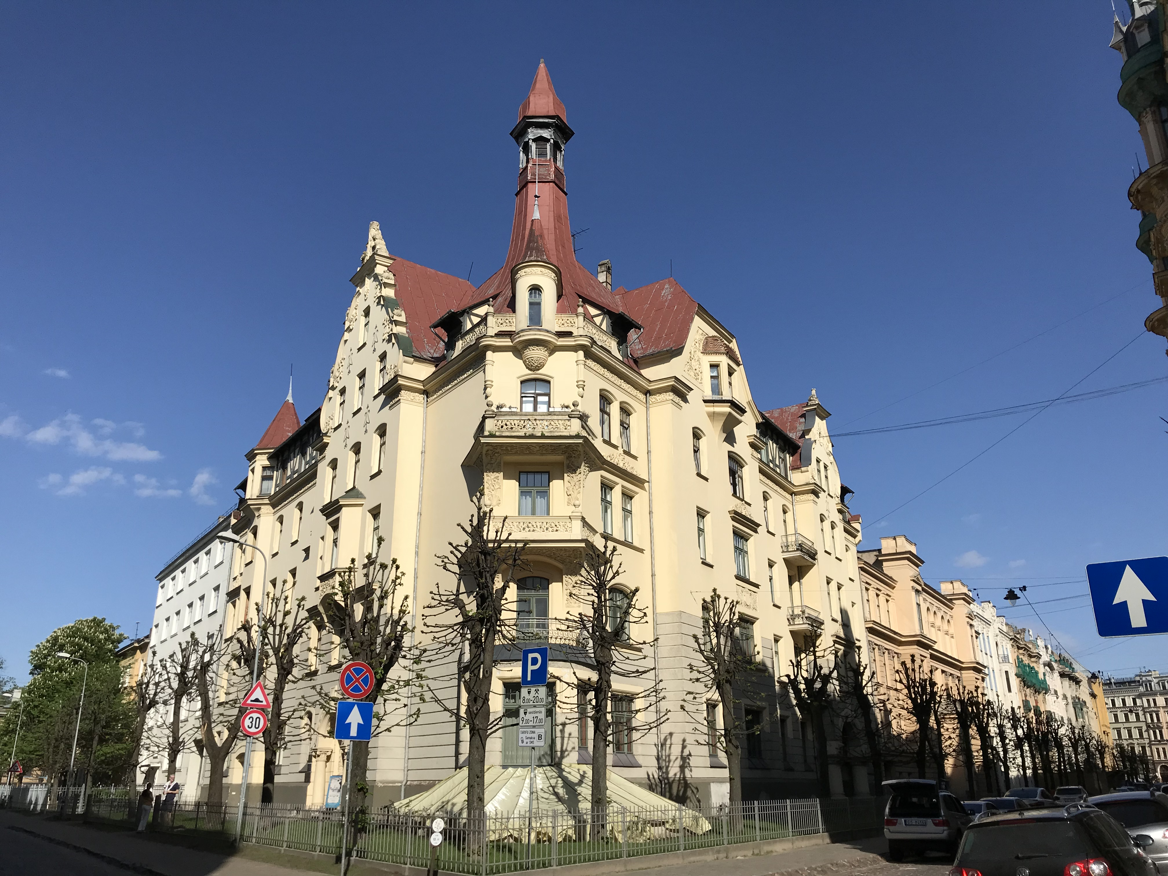 Alberta ielā 12 in the corner of Alberta ielā and Strēlnieku ielā in Riga, Latvia, built 1903. Architects Konstantīns Pēkšēns and Eižens Laube. Location of Rīgas Jūgendstila centrs. May 10, 2018.